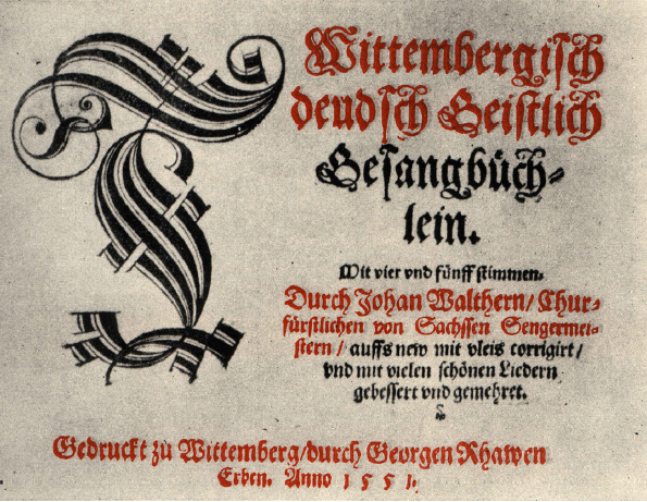 Title page of the songbook published in 1551